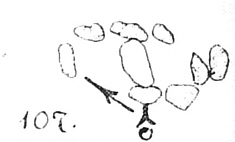 Outline of the dolmen Leetze 1, Saxony-Anhalt